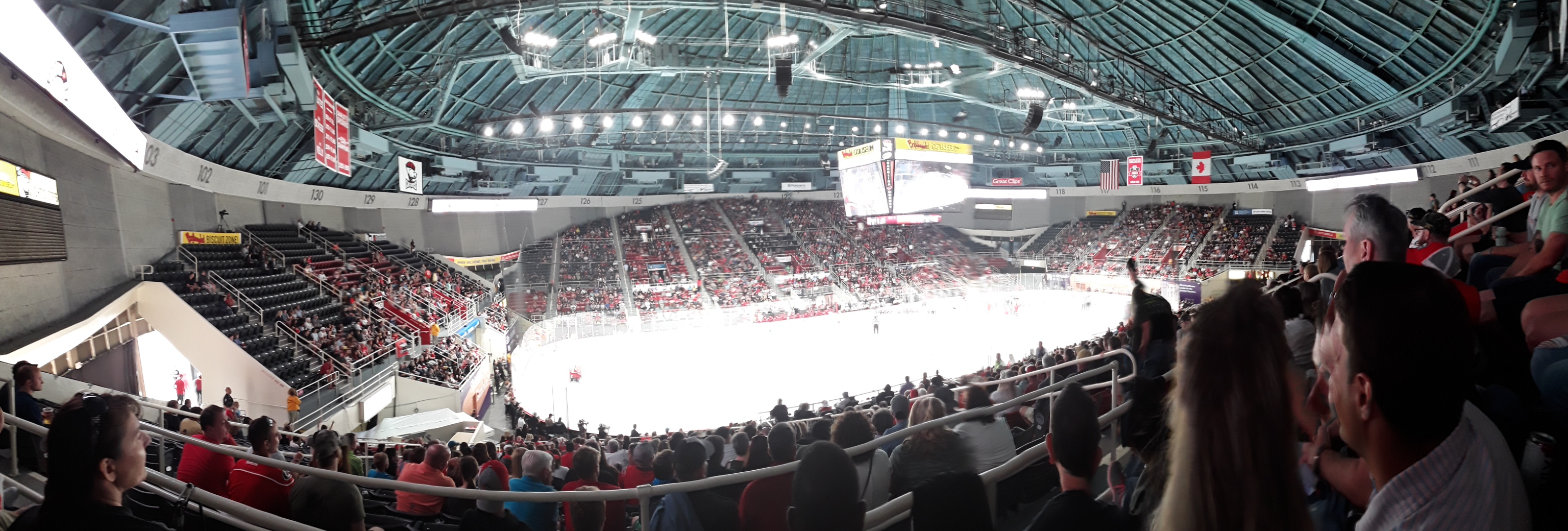 Panoramic view of the crowd at Bojangles' Coliseum in Charlotte, North Carolina for Game 2 of the 2019 Calder Cup Finals between the Charlotte Checkers and the Chicago Wolves